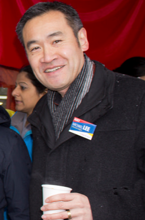 BC MLA Michael Lee